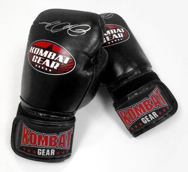 A pair of autographed Muay Thai boxing gloves worn by sports model John Quinlan during several photo shoots and appearances. The signed gloves were donated by Mr. Quinlan to David S. Brown Enterprises in July of 2012.